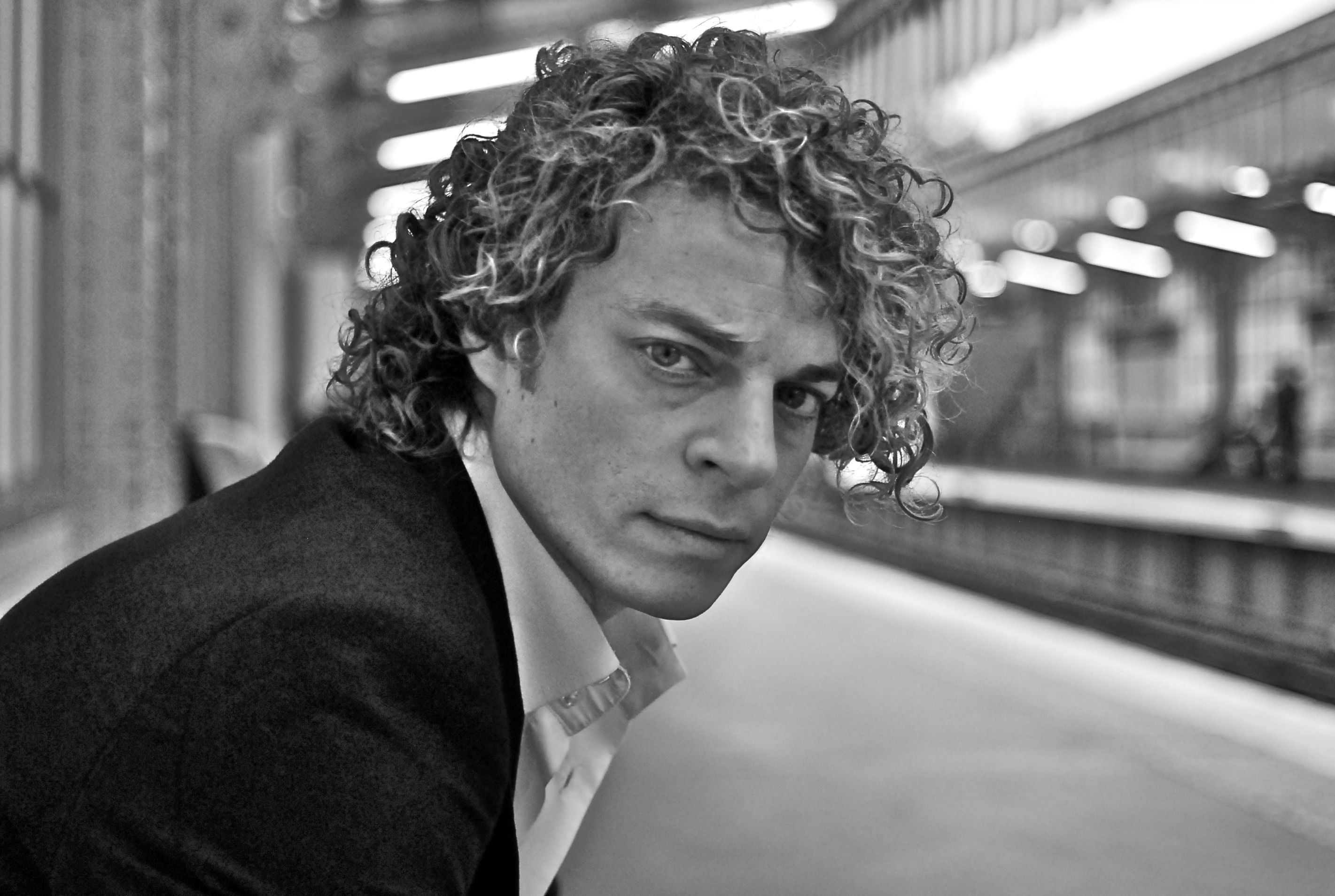 Vincent Latorre photo: Aleksander Lesiak